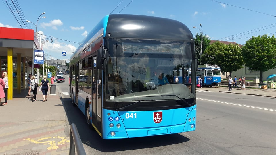 Trolleybus PTS-12 "VinLine"